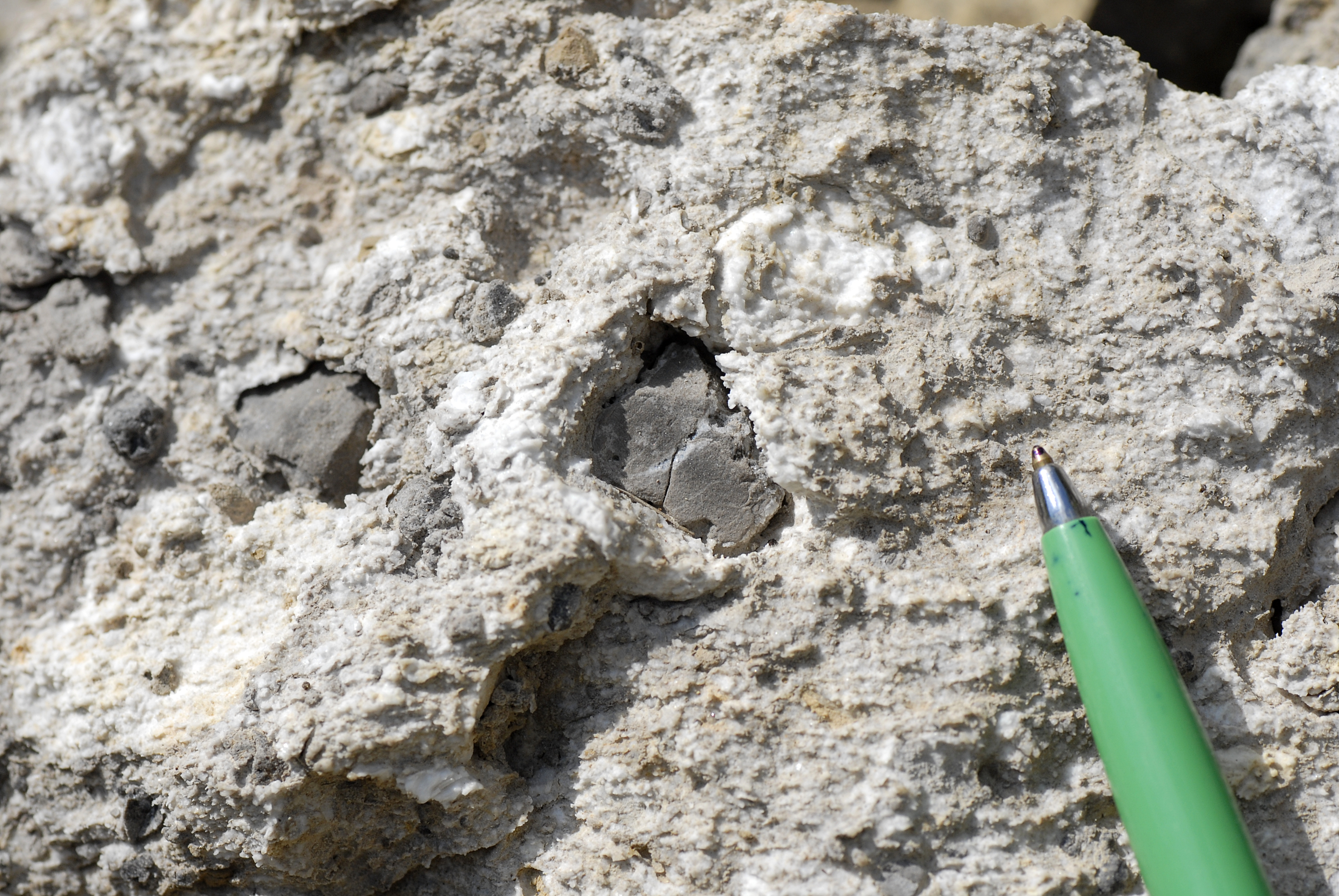 Breccia with gypsum in the Halltal, Tyrol